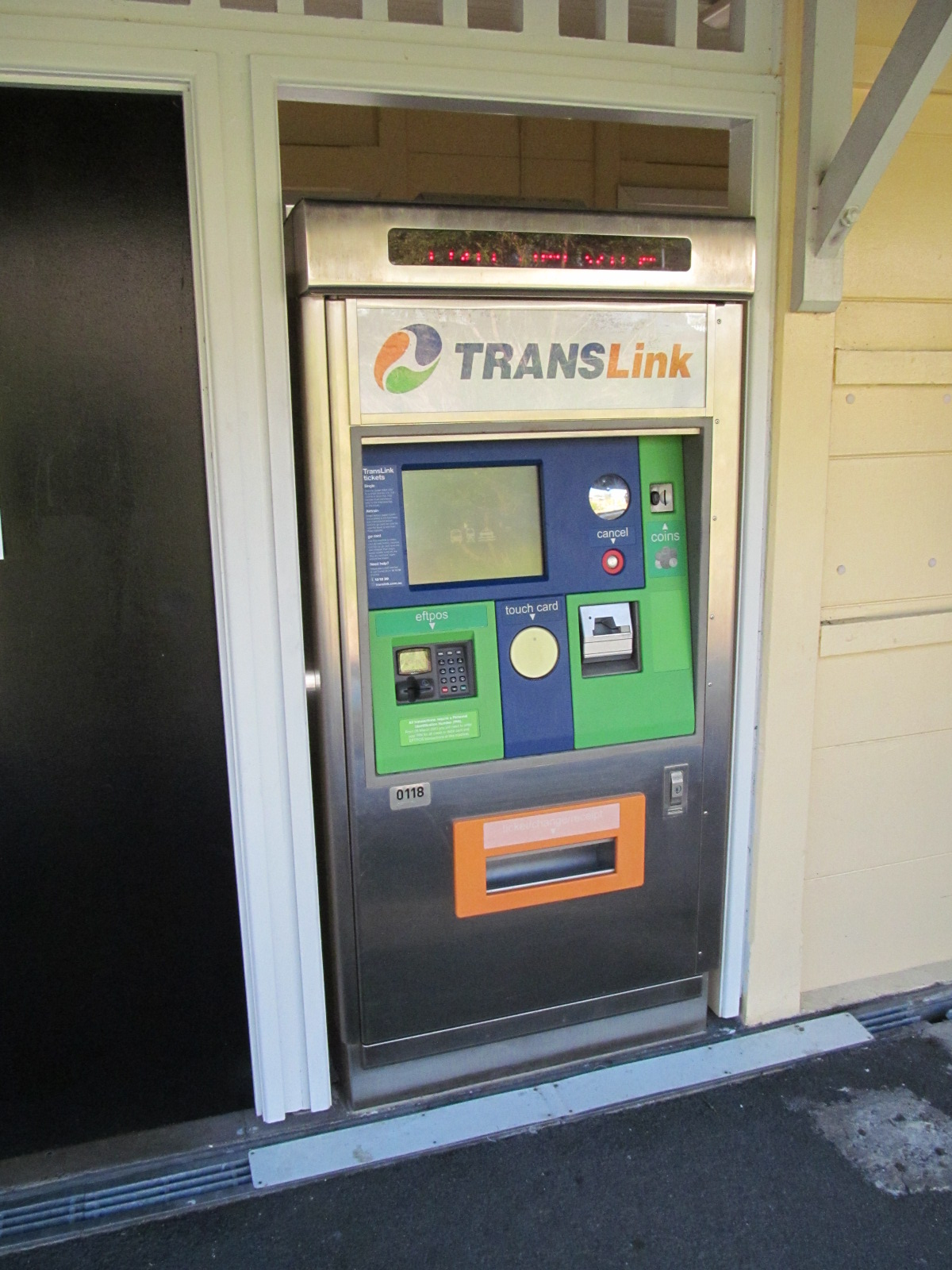 A ticket machine and Go Card top-up facility at a Brisbane train station in July 2013.